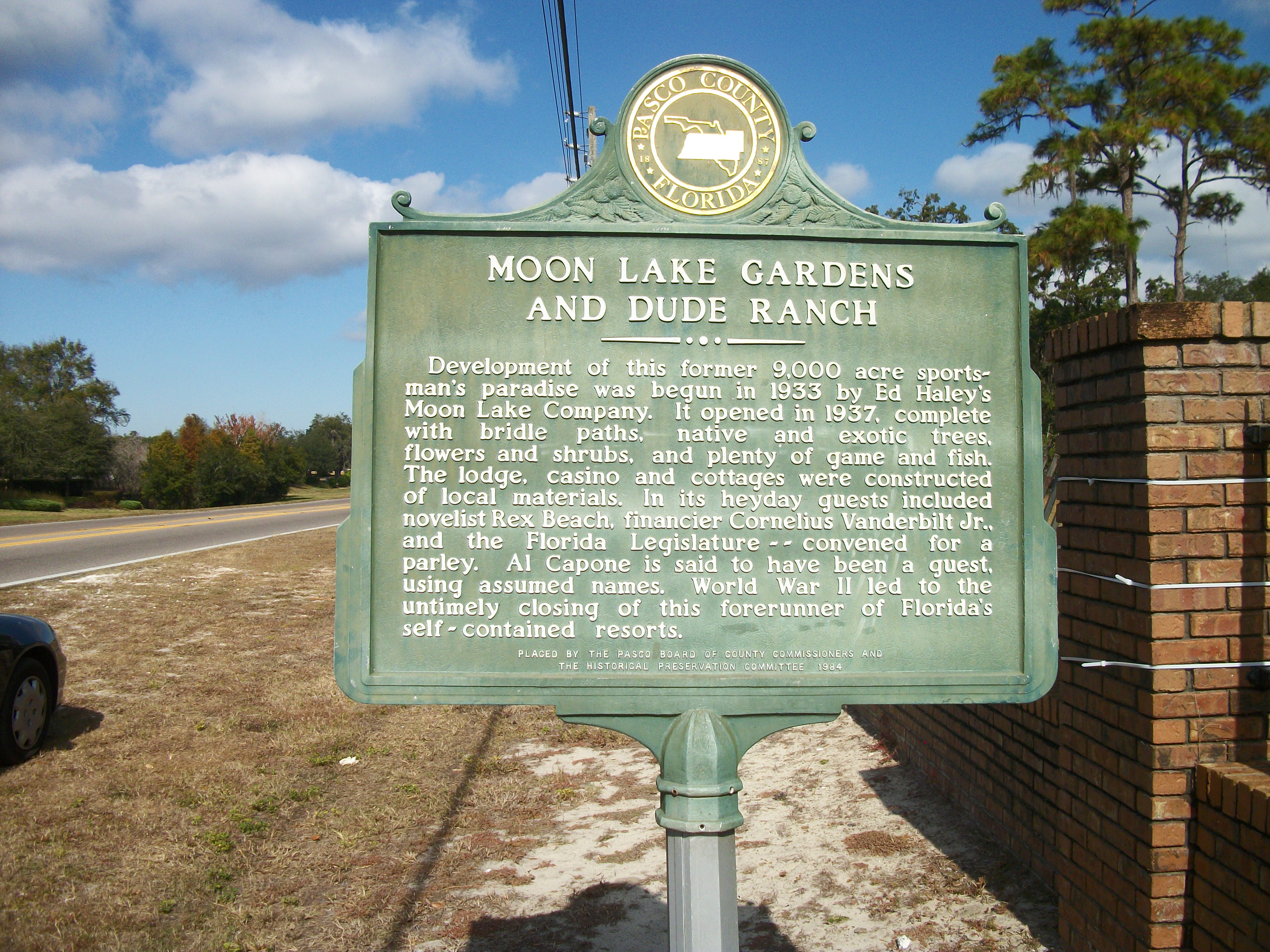 Historical Marker for the site of the Moon Lake Gardens and Dude Ranch off of Moon Lake Road in Moon Lake, Florida, northeast of New Port Richey, Florida.